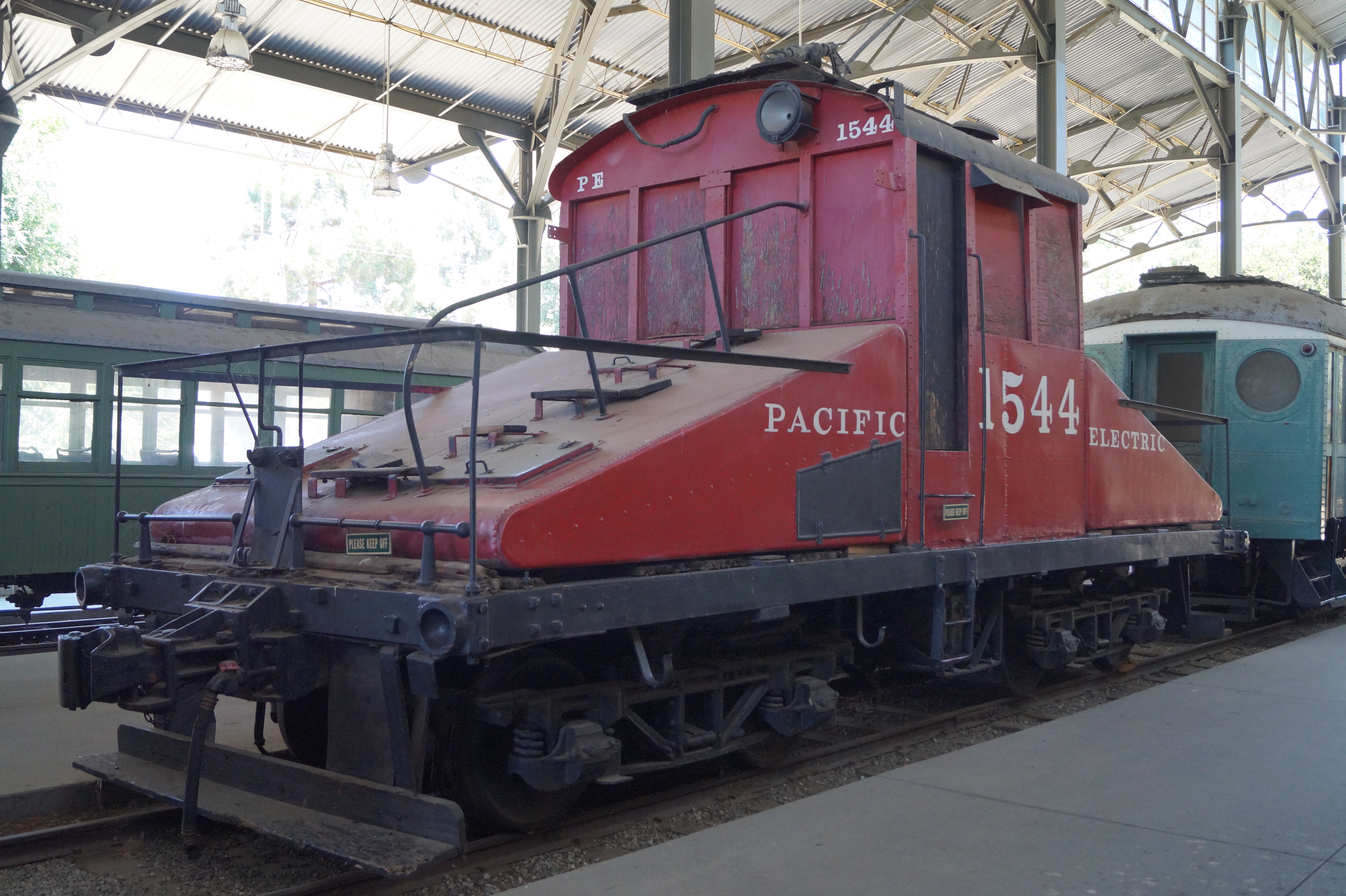 Travel Town Museum is a transport museum dedicated in the northwest corner of Los Angeles, California's Griffith Park. The history of railroad transportation in the western United States from 1880 to the 1930s is the primary focus of the museum's collection, with an emphasis on railroading in Southern California and the Los Angeles area.